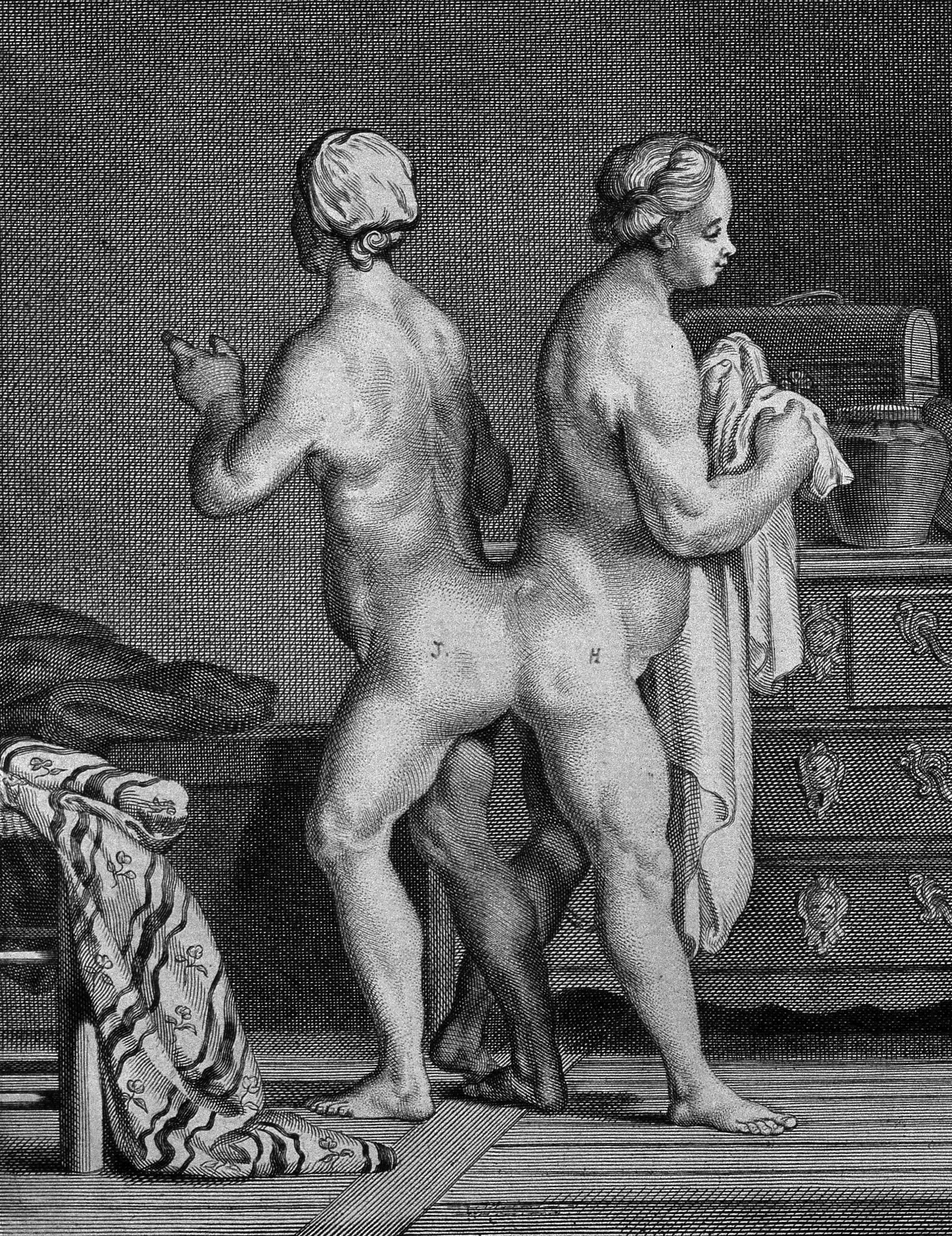 Iconographic Collections Keywords: Jacques de Sève; Juste Chevillet; hbelaene and judith, 1701-1723; siamese twins; Hélène and Judith; portrait prints; birth defects; etchings